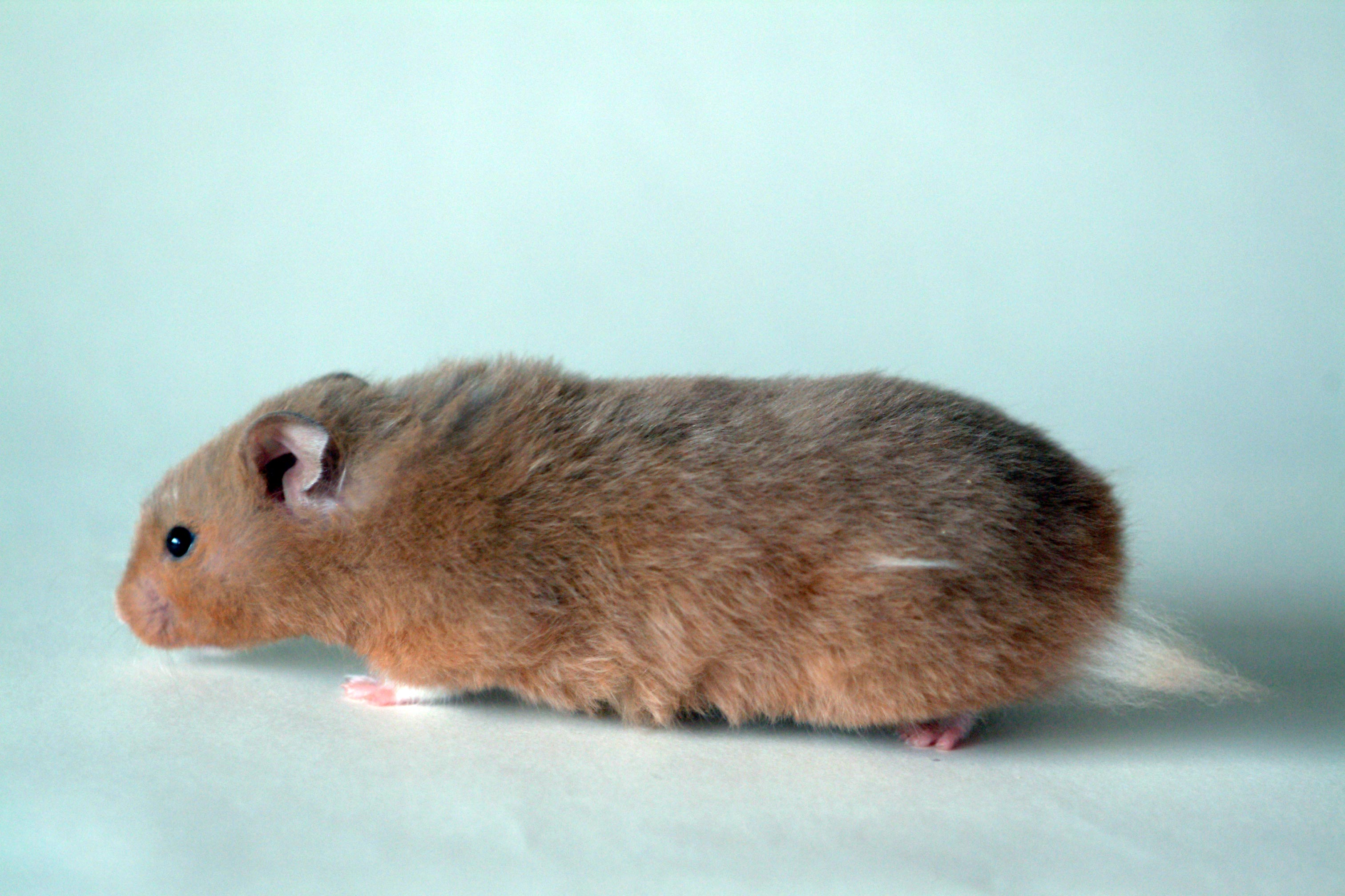 A Golden Hamster called Vince (she is a rescue hamster approx 1 year old when the photo was taken). This photo shows the Golden Hamster side on, with extra tuffty bits :o) This photo is my own work. Adamjennison111 21:57, 31 August 2006 (UTC)